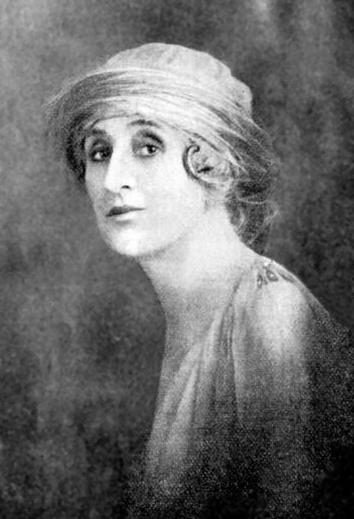 Dora Ohlfsen-Bagge (1869–1948), published in Australia on p. 24 of "Dora Ohlfsen and Her Work", The Triad, 6(12), 10 September 1921, pp. 23–24, and The Observer (Adelaide), 11 February 1922, p. 39.